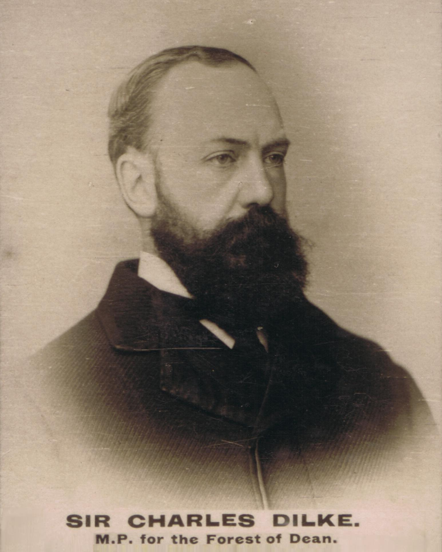 photo from an Ogdens Cigarette card